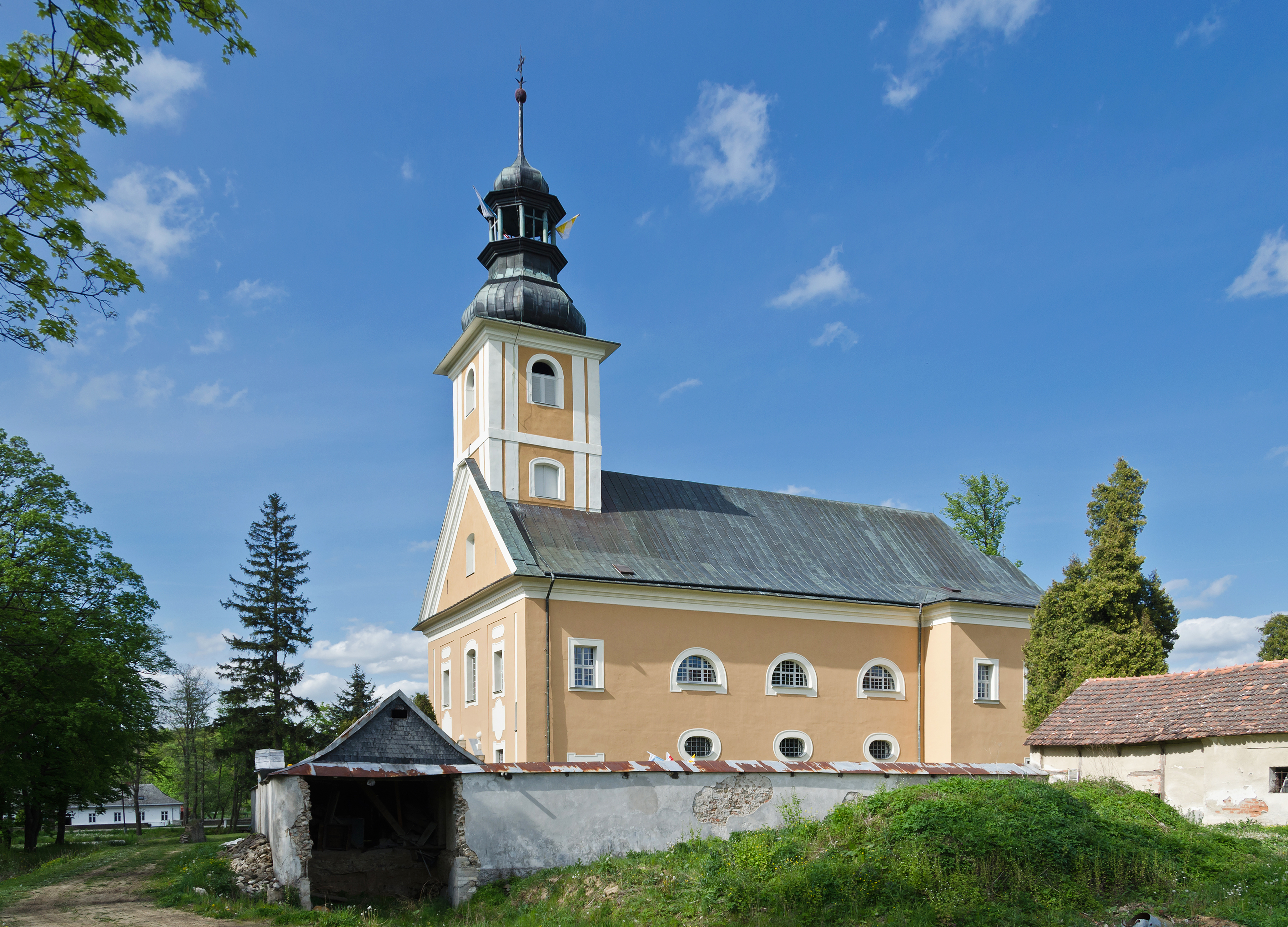 Saint George church in Wilkanów